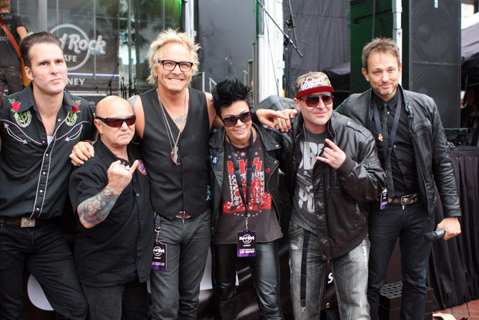 Celebration of opening of Darling Harbour café on 6 December 2011. Attended by Hamish Rosser, Angry Anderson, Matt Sorum, Sarah McLeod and DJ Lethal.